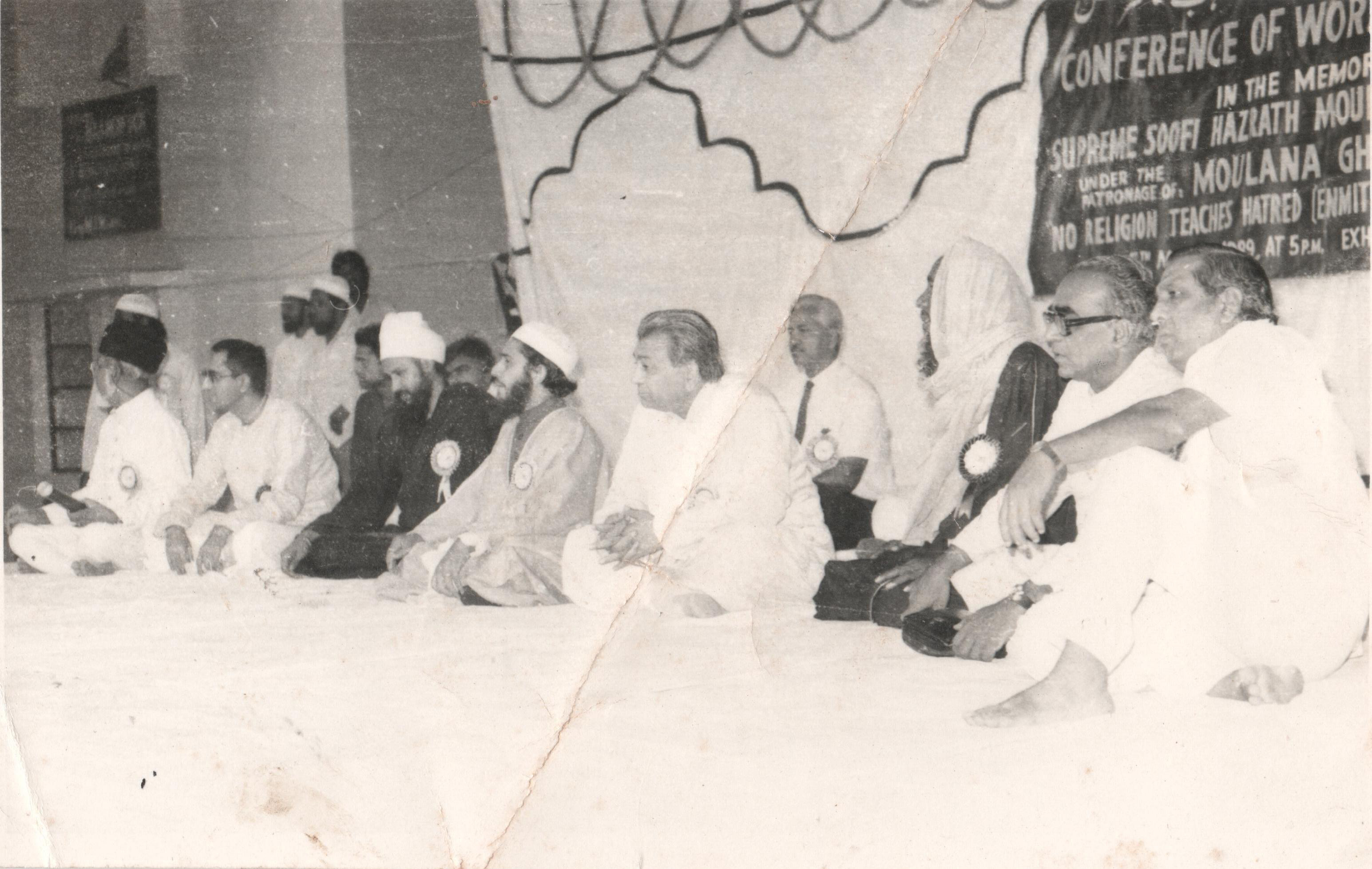 First conference of world religions organized by Moulana Ghousavi Shah(Secretary General: The Conference of World Religions)